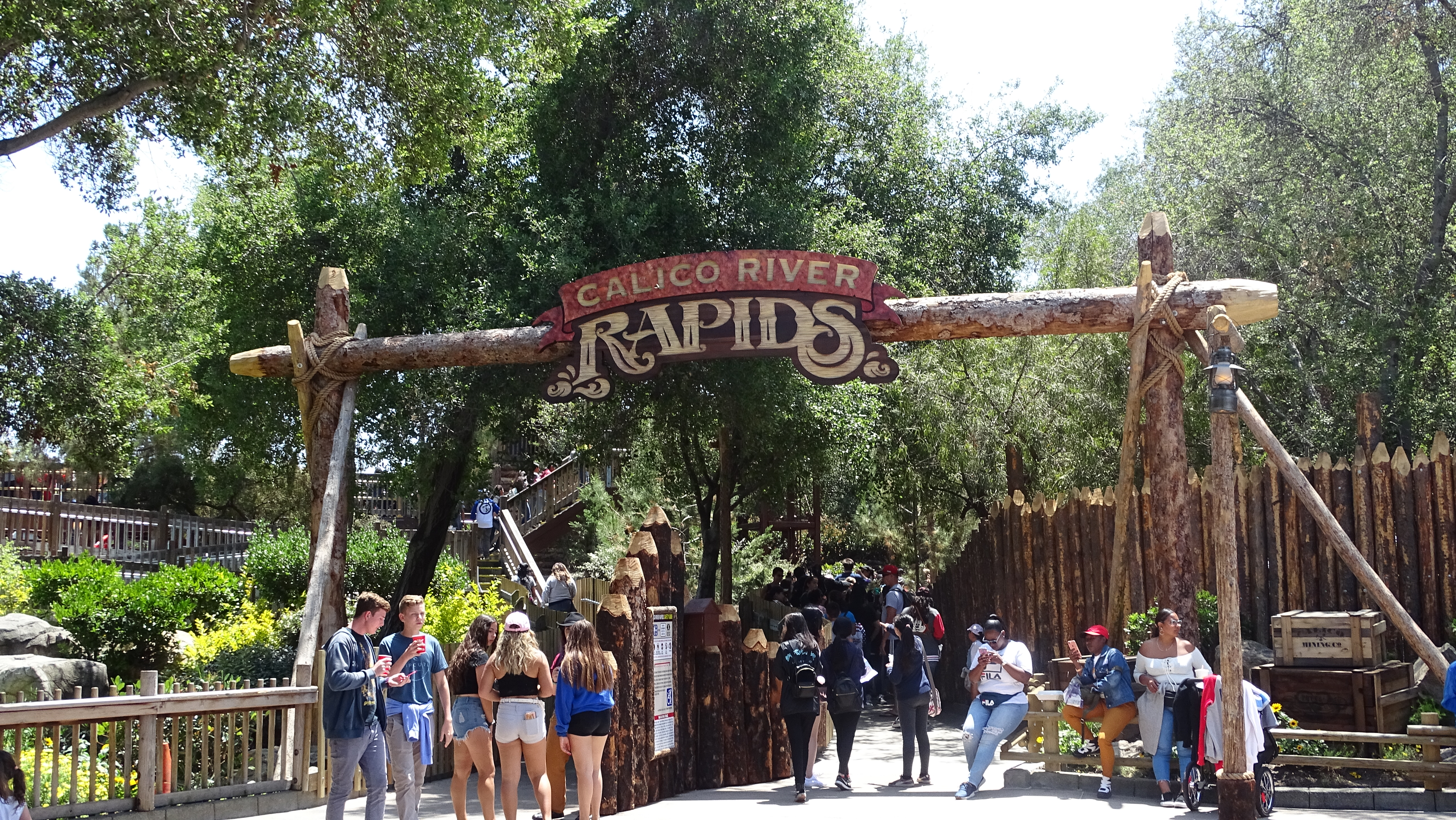 Entrance